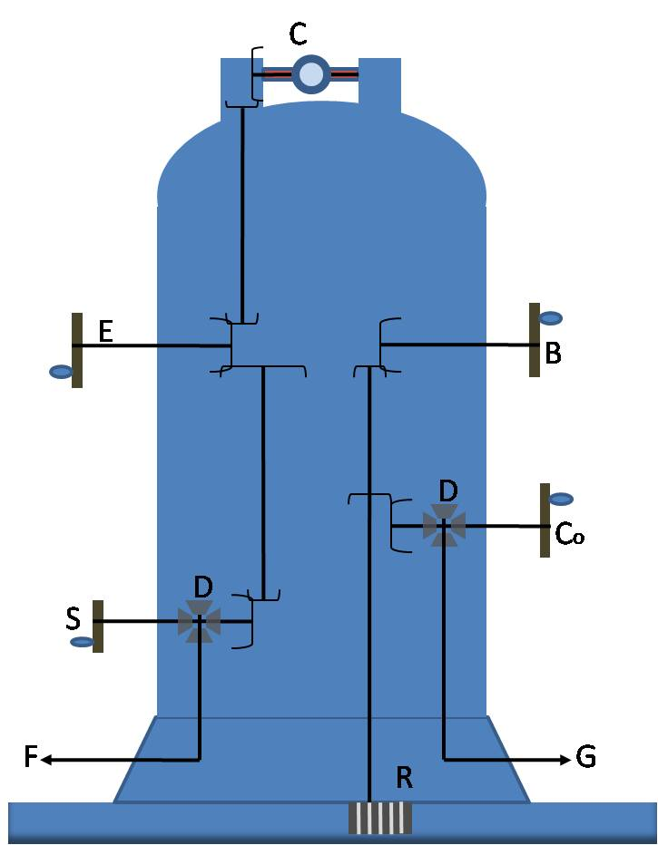 Diagram of a director correction trasmitter installed on italian battleships.